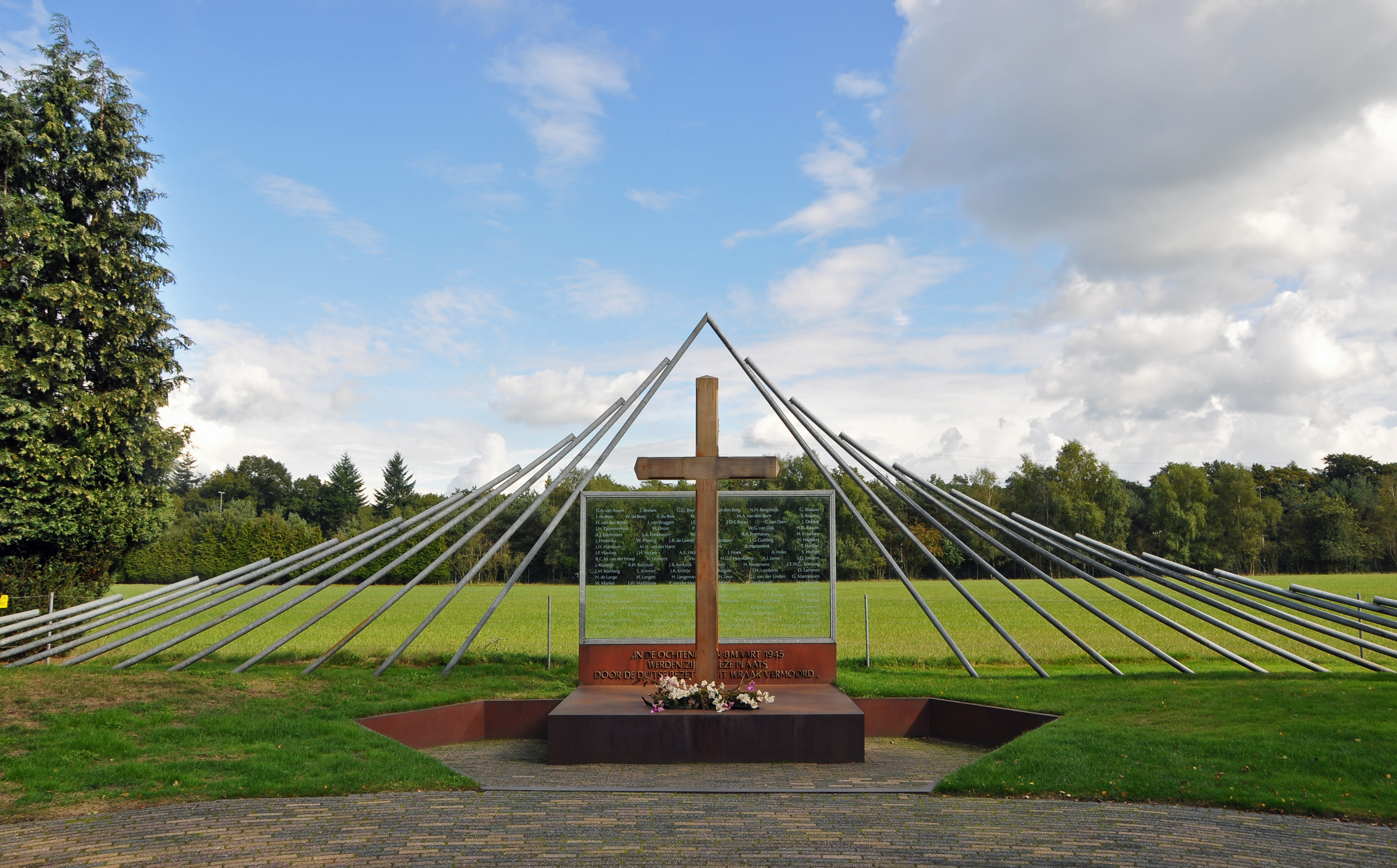 Woeste Hoeve (Apeldoorn, the Netherlands): war memorial